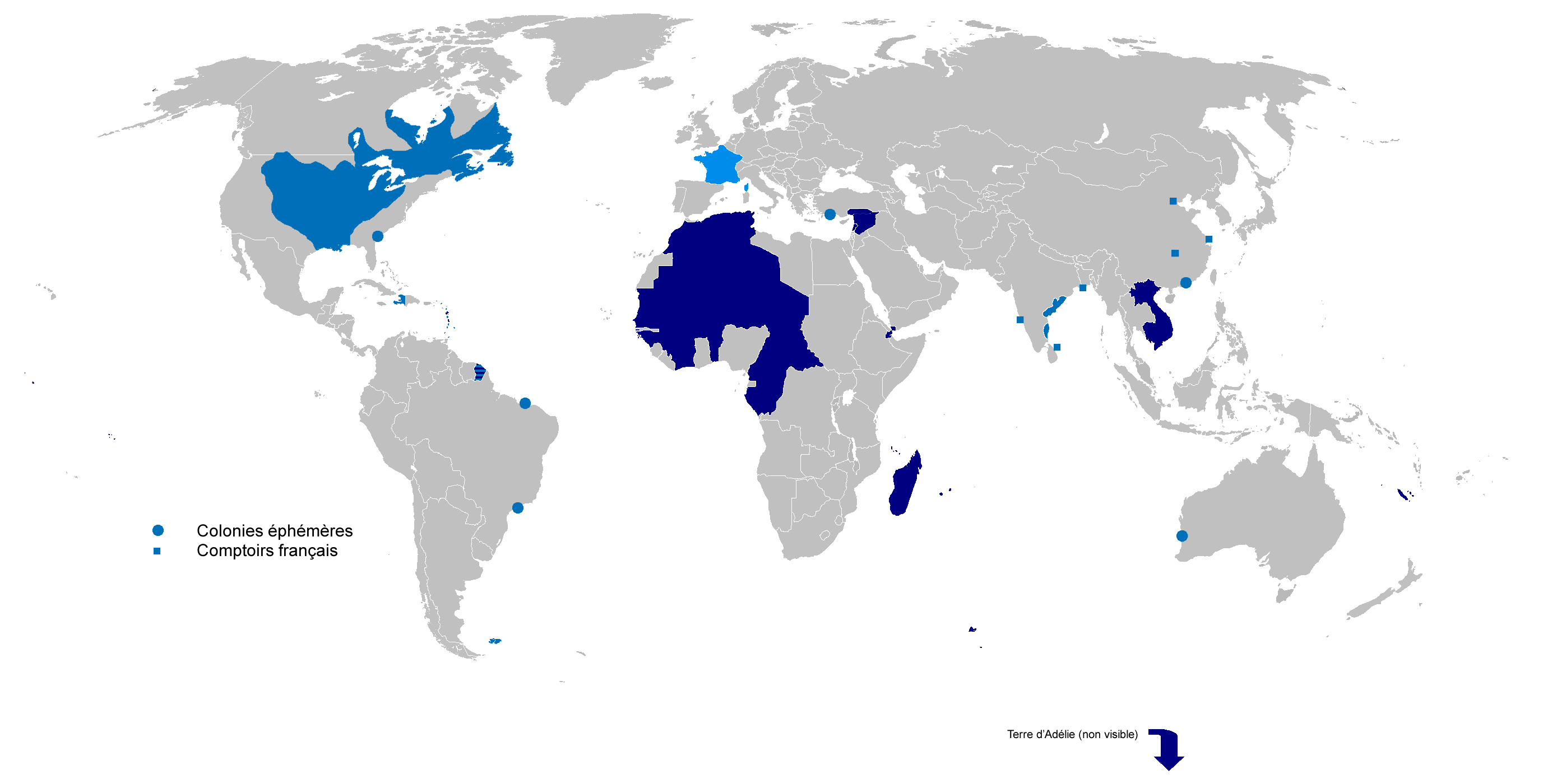 Colonial empire from 1542 to 1980 Dark Blue: Second colonial empire Light Blue: First colonial empire